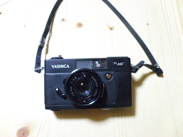 A photograph of YASHICA 35MF